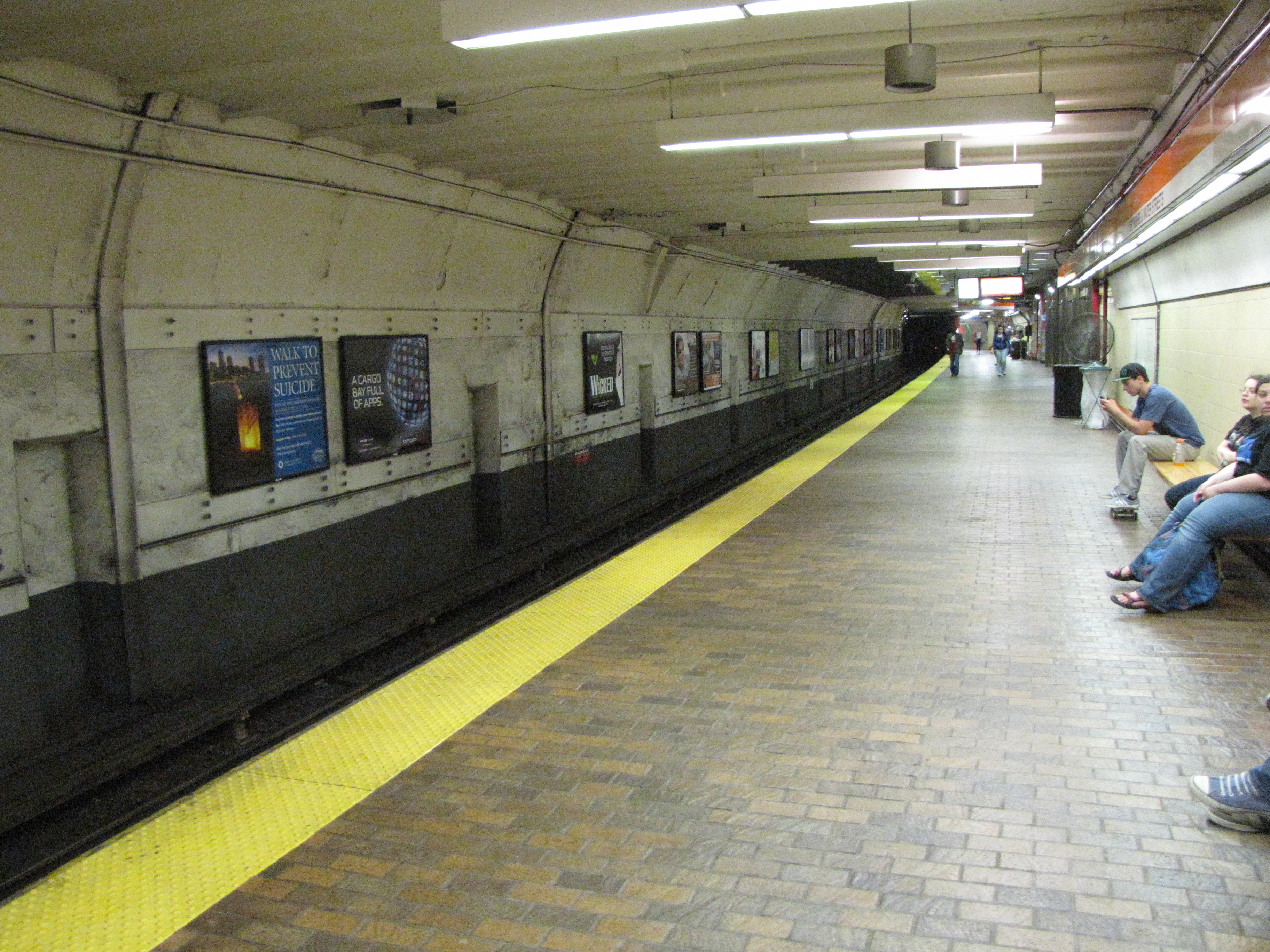 MBTA State station Orange Line platform, direction of Forest Hills.